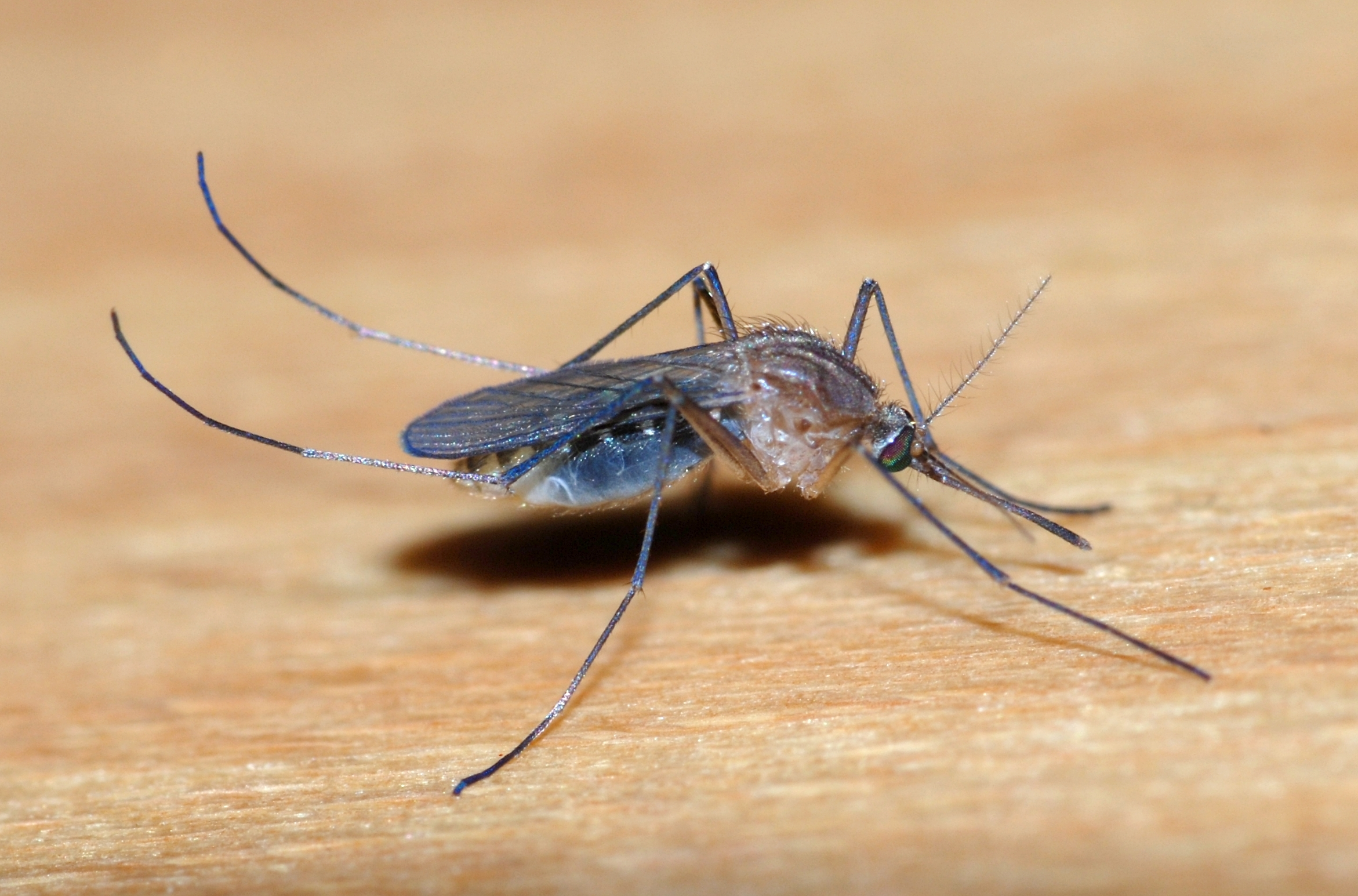 Female Culicine mosquito (cf. Culex sp.)